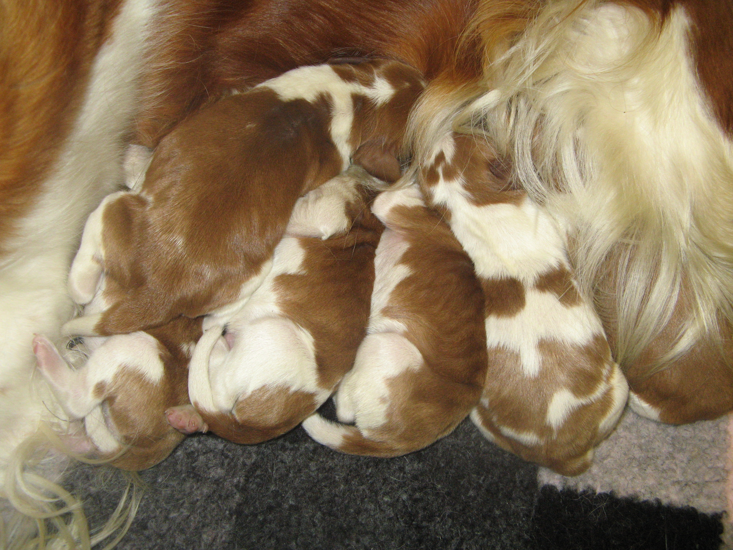 Pups less than 24 hours old